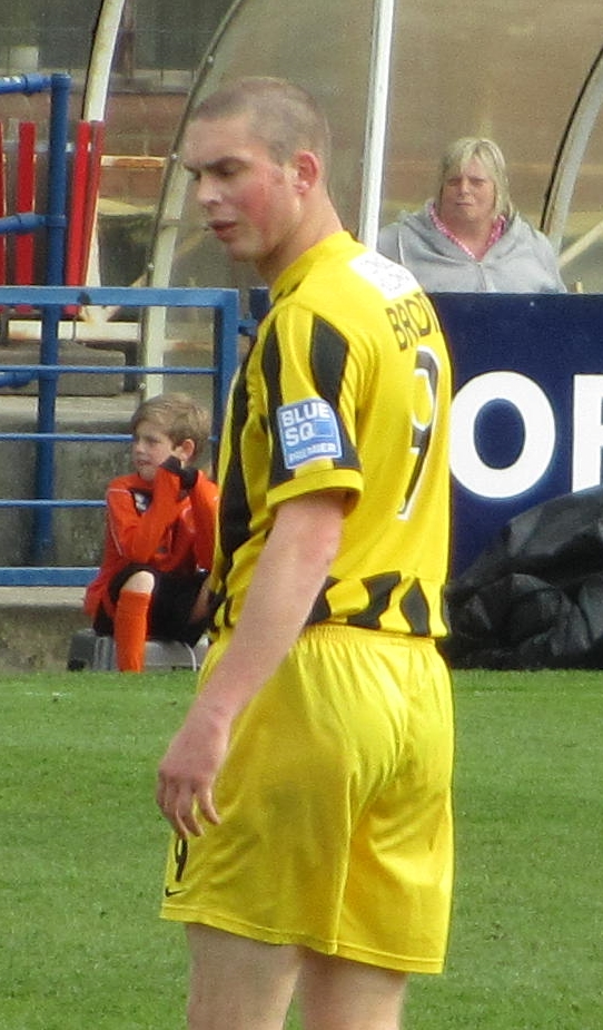 Richard Brodie playing for Fleetwood Town against York City at Bootham Crescent, York on 7 April 2012